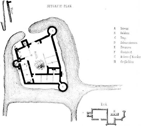 De Haar Huis (now De Haar Castle) before restoration, situation.